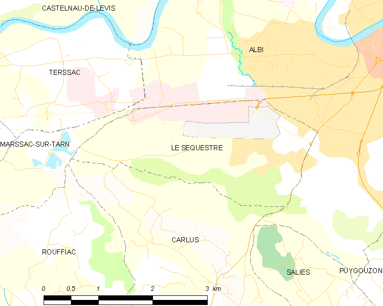 Map of French municipality Le Sequestre